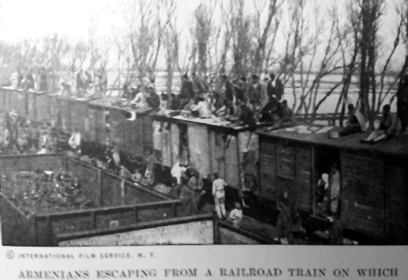 This included many who broke away from the deportation columns as they passed the vicinity on their way to Mosul.[37]